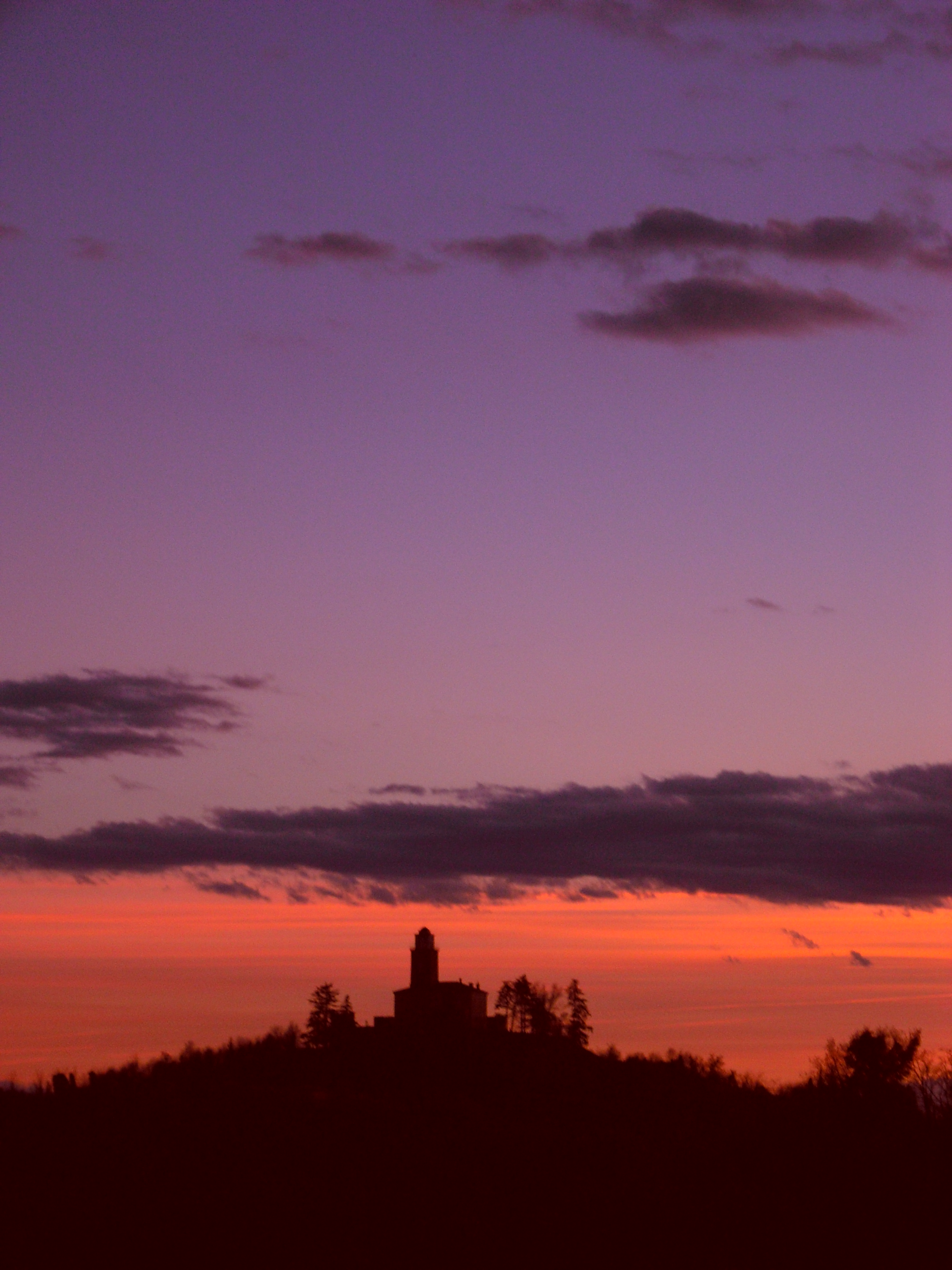 Montecastello castle at sunset.